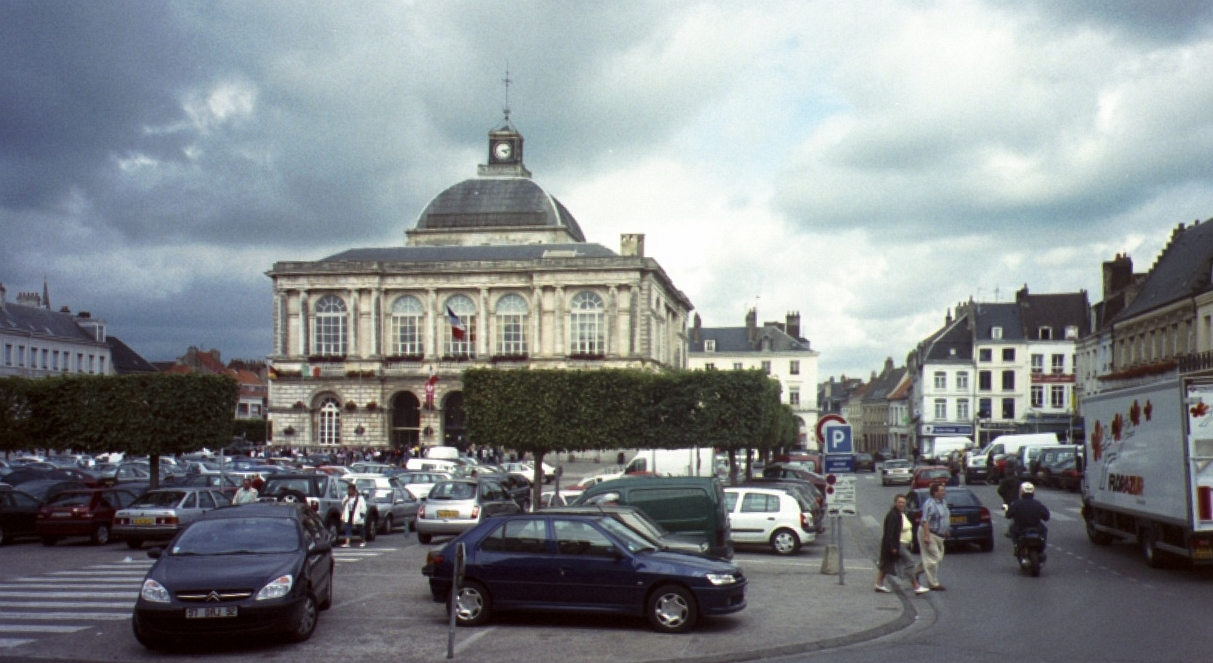 Town hall of Saint-Omer (France).